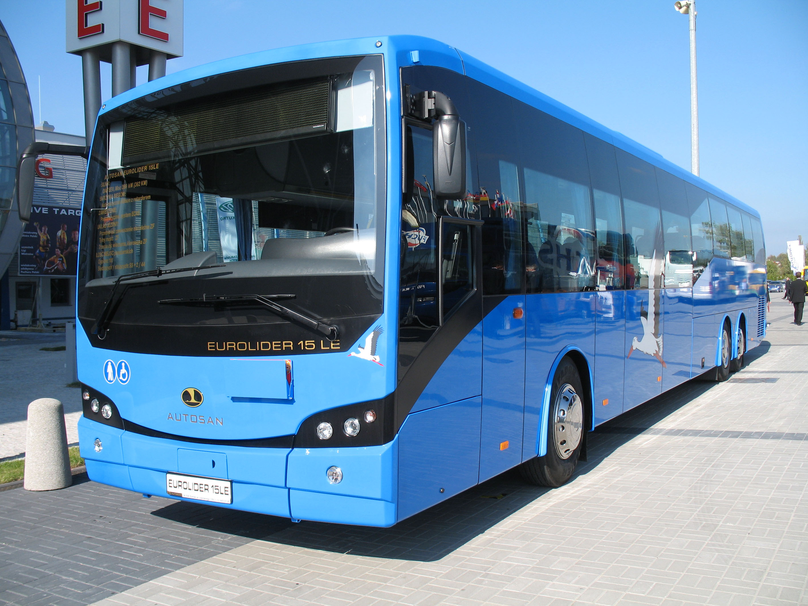 Autosan Eurolider 15 LE bus in Kielce, Poland. Built 2010, Transexpo 2010.